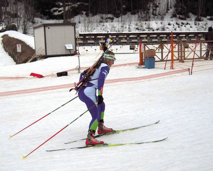 Tadeja Brankovič-Likozar at the 2010 Winter Military World Games